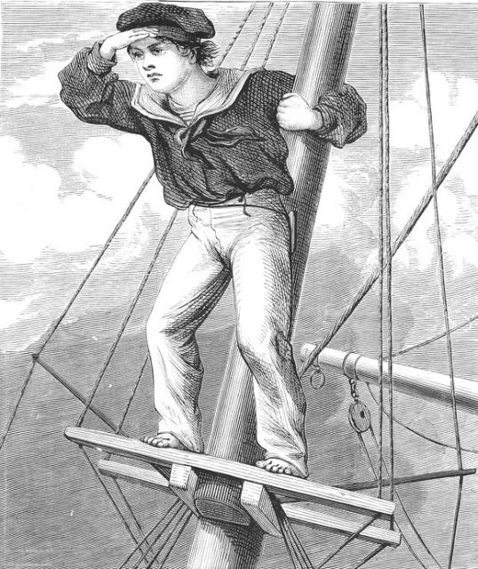 (Removed after reusableart request.)